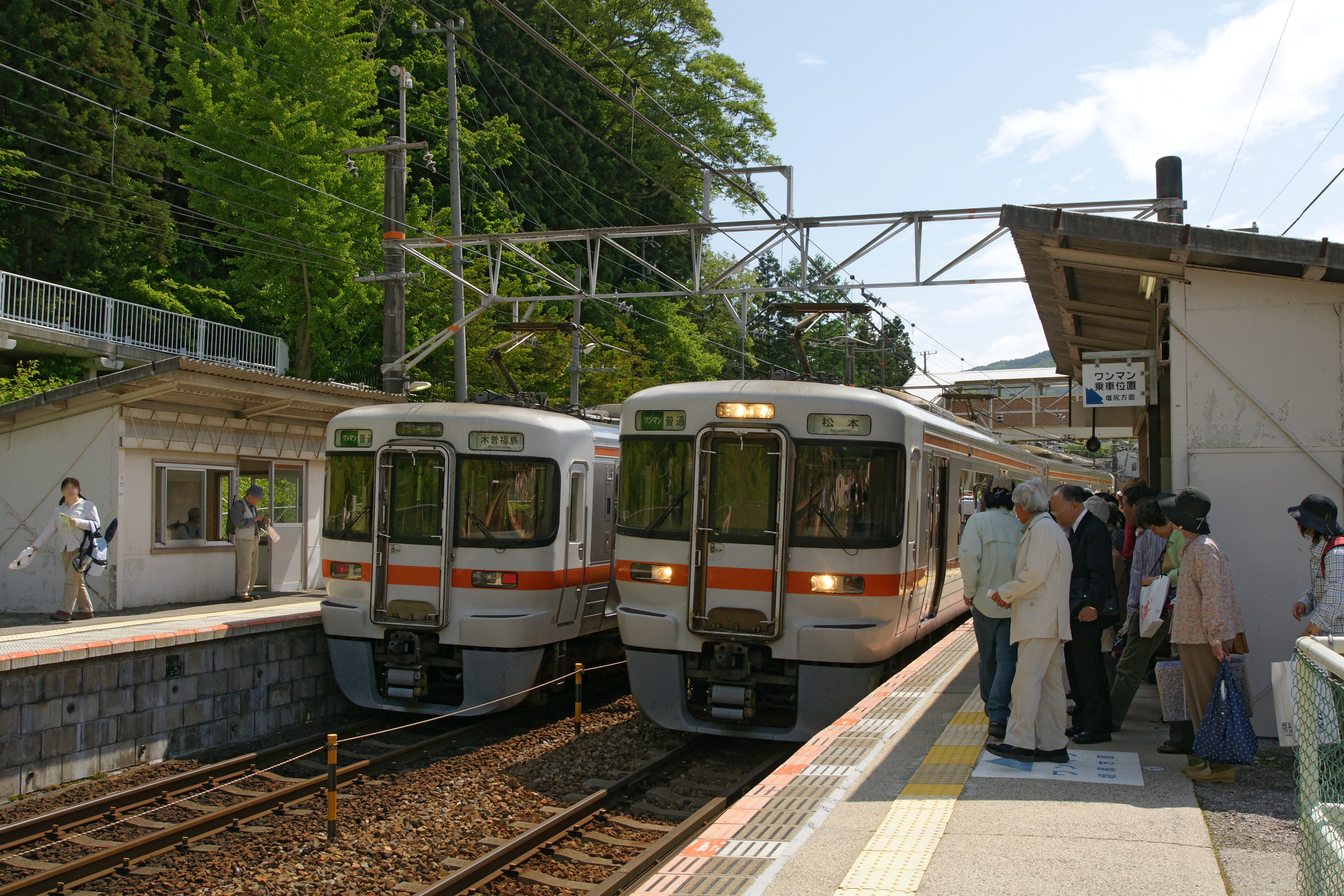 Kiso-hirasawa Station, Shiojiri, Nagano prefecture, Japan